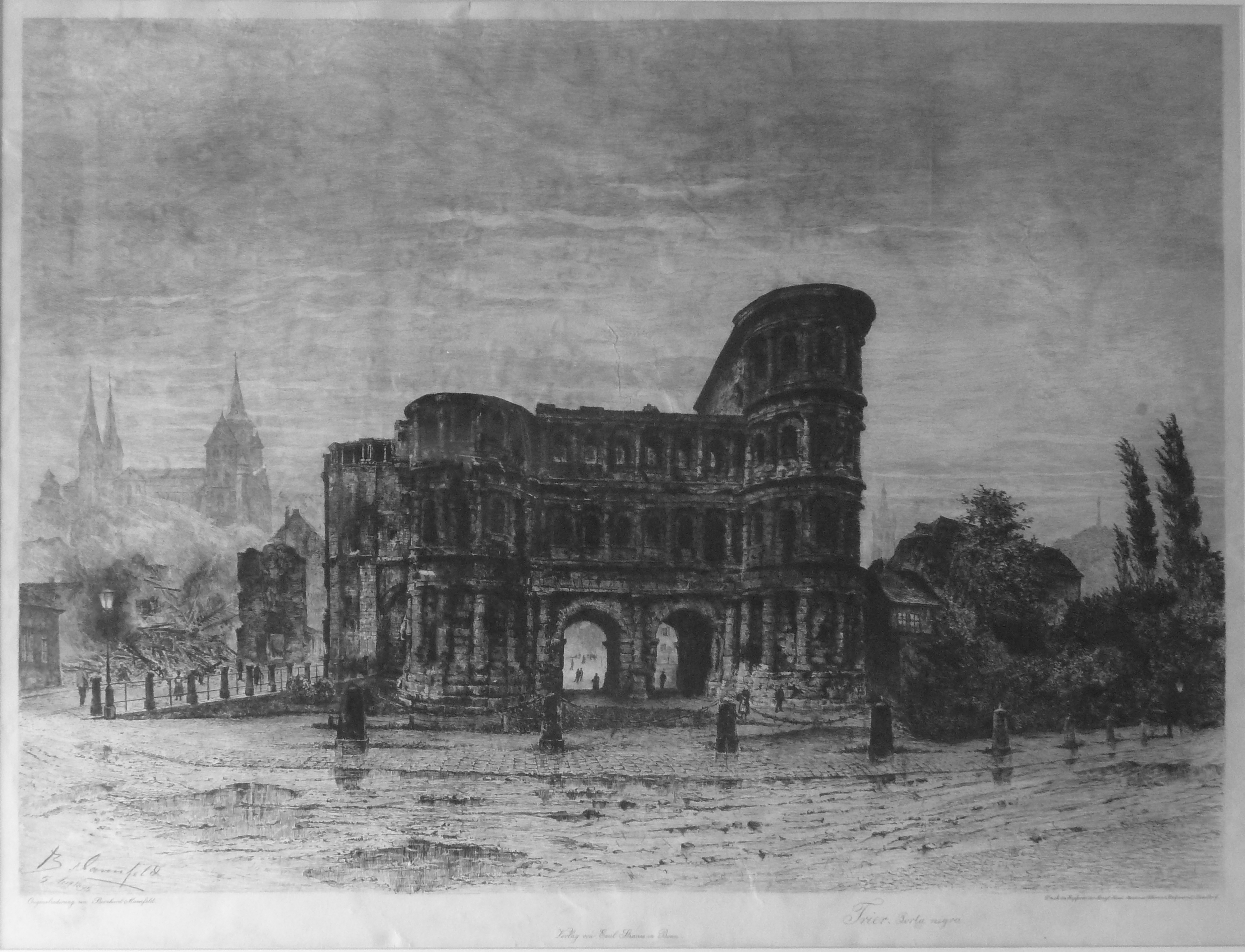 Etching of PortaNigra in Trier, Germany, by Berhard Mannfeld 1895